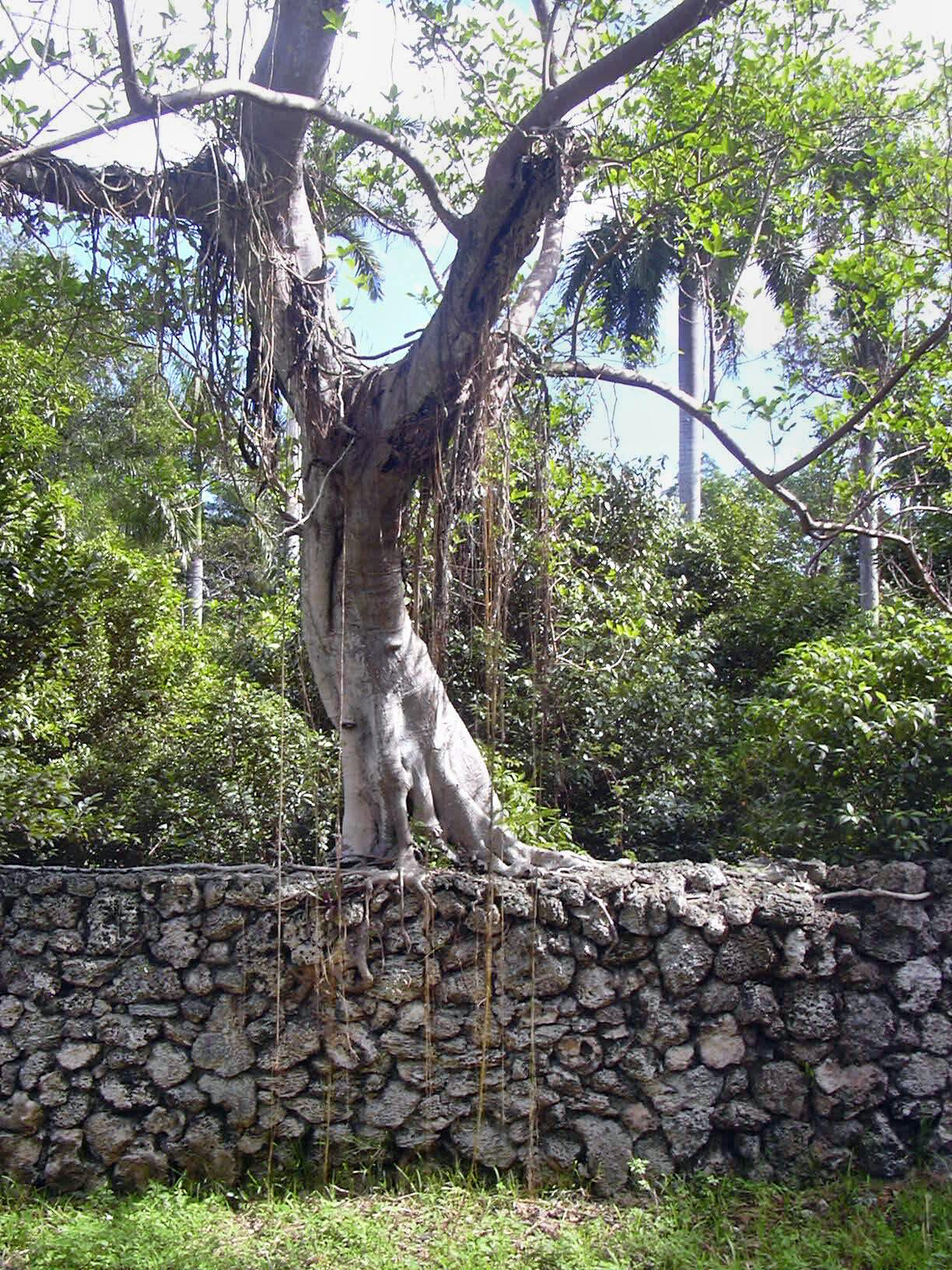 Habit of the Florida Strangler fig (Ficus aurea) — in Florida.